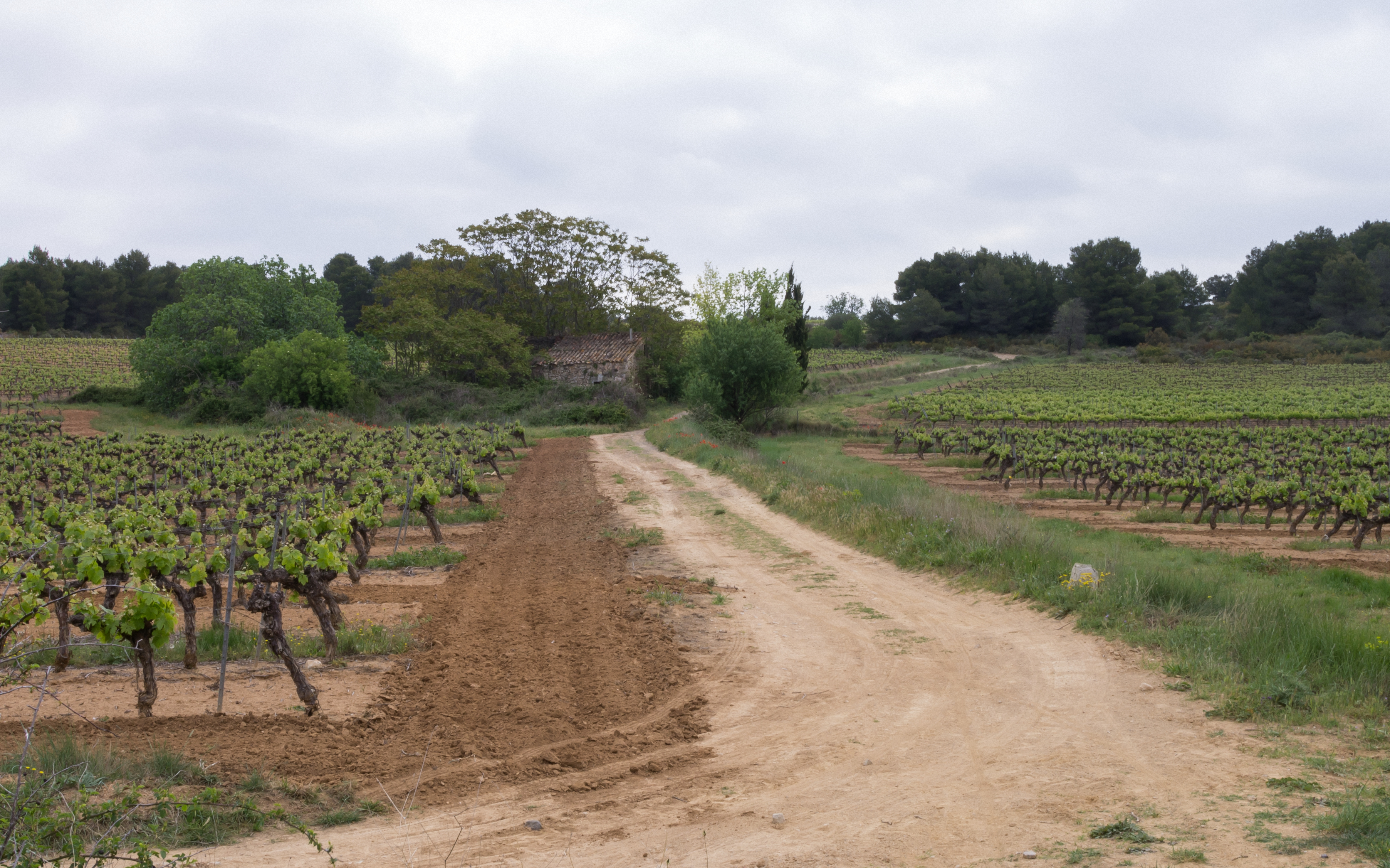 Vineyard and Mas du Sol in the commune of Castelnau-de-Guers, Hérault, France. Aspect ratio 16:10.